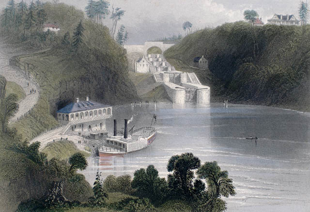 Locks on the Rideau Canal, Bytown (Ottawa, Canada). Inscription: On the plate, recto, l.l.: W.H. Bartlett; l.r.: J.C. Armytage; b.: Locks on the Rideau Canal/ (near Bytown)/ VANNES SUR LE CANAL RIDEAU BYTOWN DIE SCHLEUSE AM CANAL RIDEAU, ZU BYTOWN/ London, published for the Proprietors, by Geo, Virtue, 26, Ivy Lane, 1841.